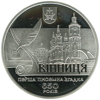 The reverse of commemorative silver coin of Ukraine "650 years of the first written mention of the Vinnitsa" (2013)